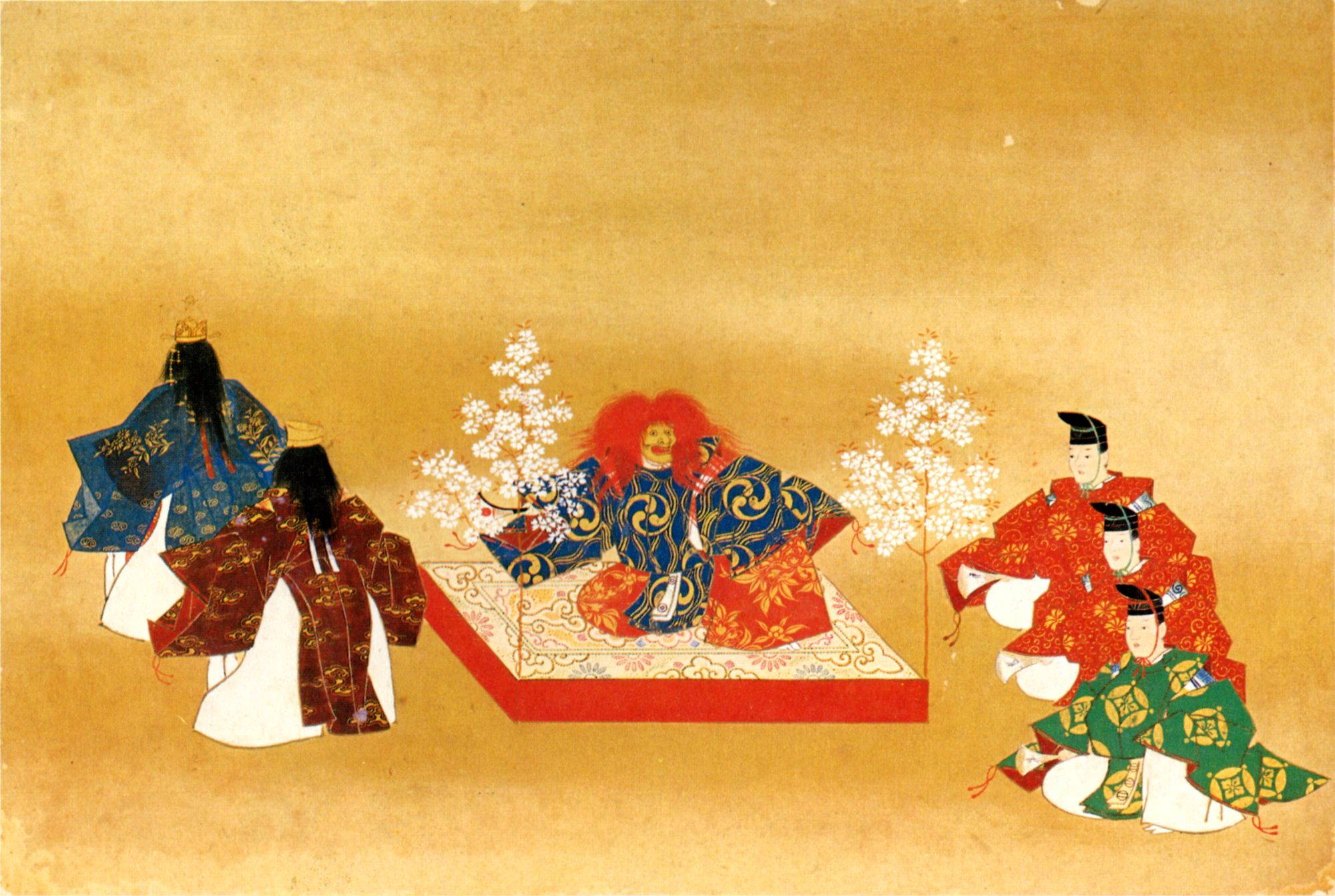 Noh-Arashiyama(by KOMPARU Zempo)